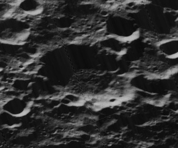 Oblique view of Van Rhijn crater, on the far side of the moon, facing west